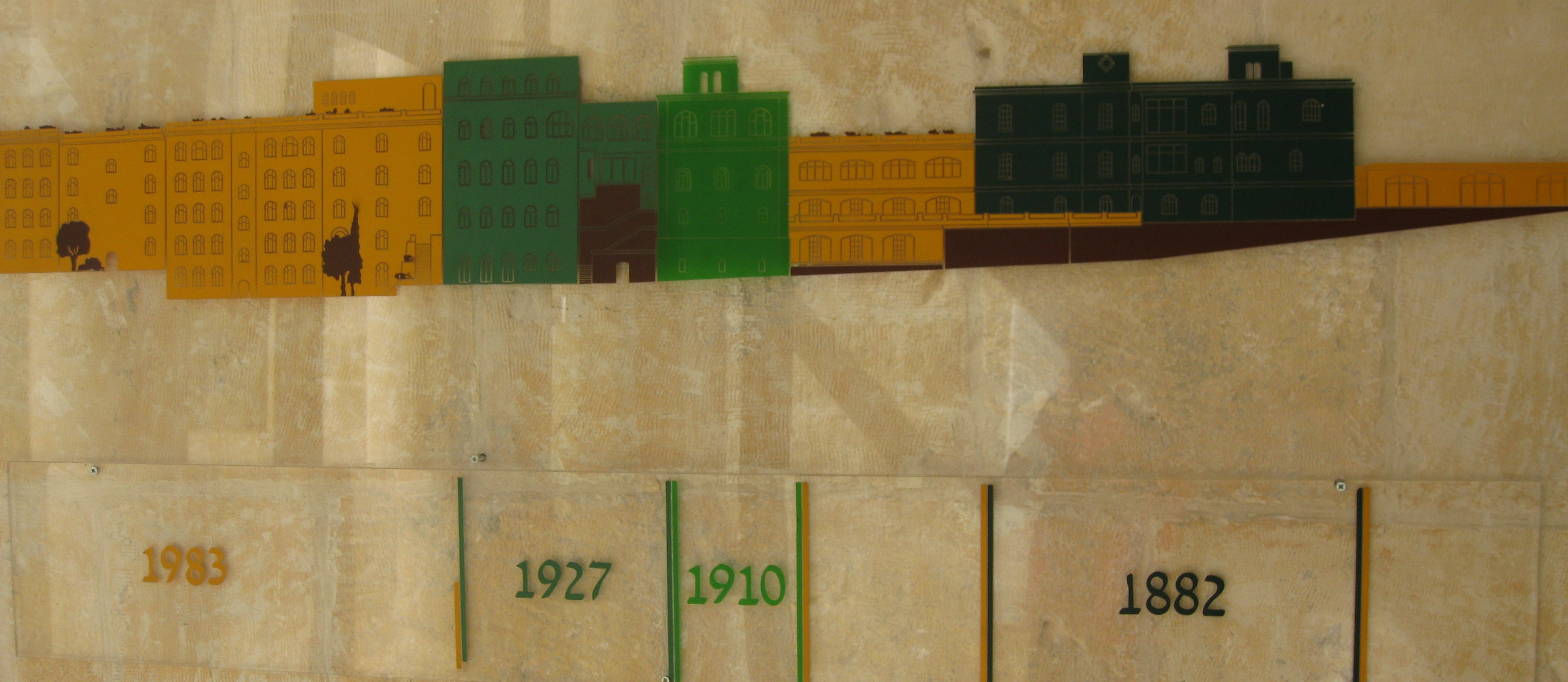 Development of Mount Zion Hotel